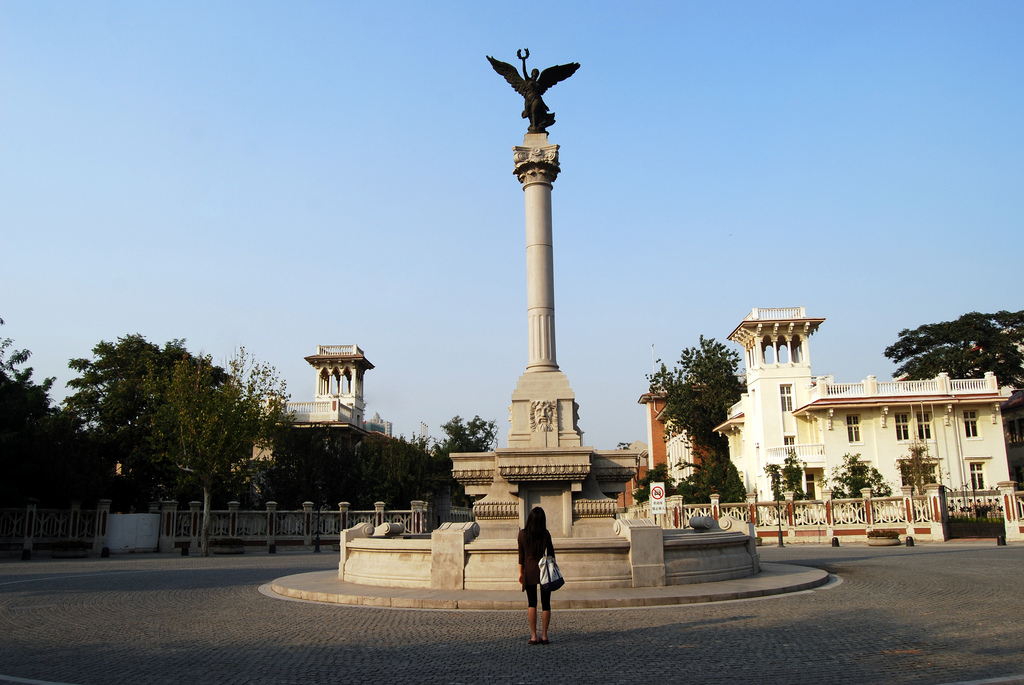 Monument on Marco Polo Square in the former Italian conession in Tianjin